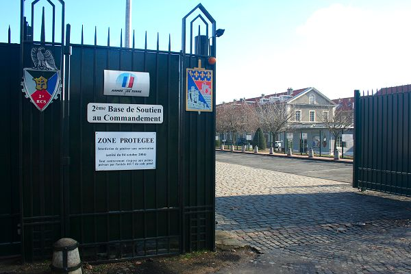 Fort Neuf Vincennes - Home of the 2nd BCS from French Army